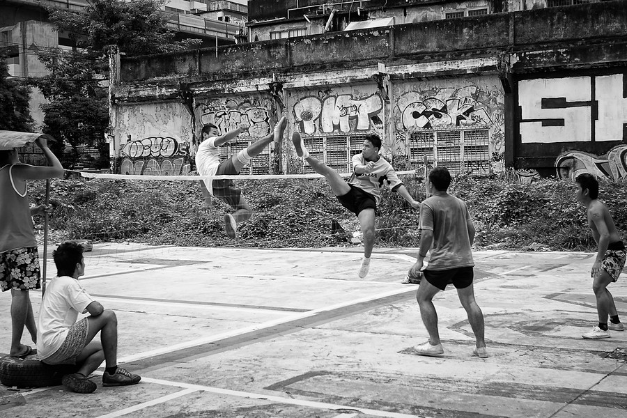 A game of Sepak Takraw on a court in Bangkok's Pathum Wan district.